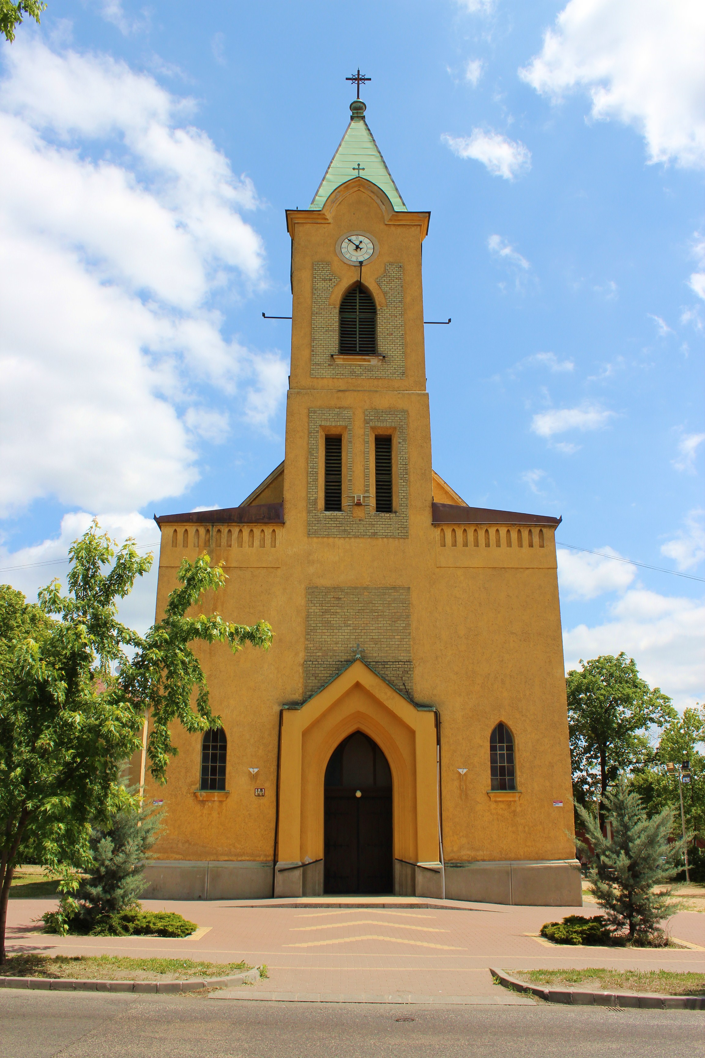 Our Lady of Hungary church in Rákosliget